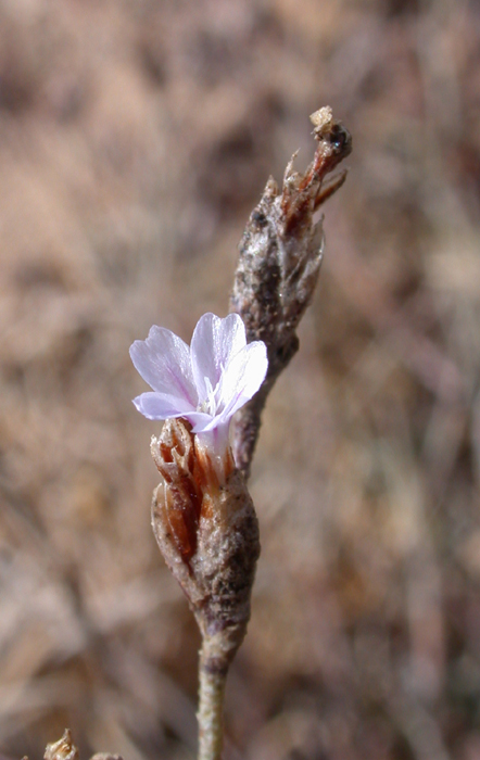 Limonium galilaeum Domina, Danin & Raimondo (עדעד הגליל), Rosh Hanikra beach, Northern Israel, September 7, 2007.